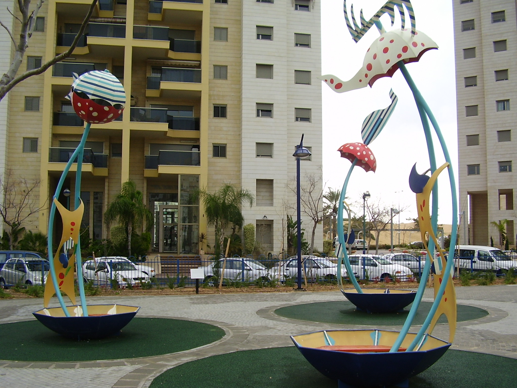 Rutti's Umbrella story garden in Holon